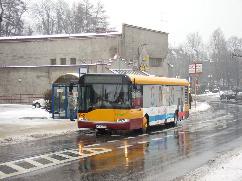 Solaris Urbino 12 Mk2 bus (#810) in Jaworzno, Poland. Meteor Jaworzno company. Year built 2003.